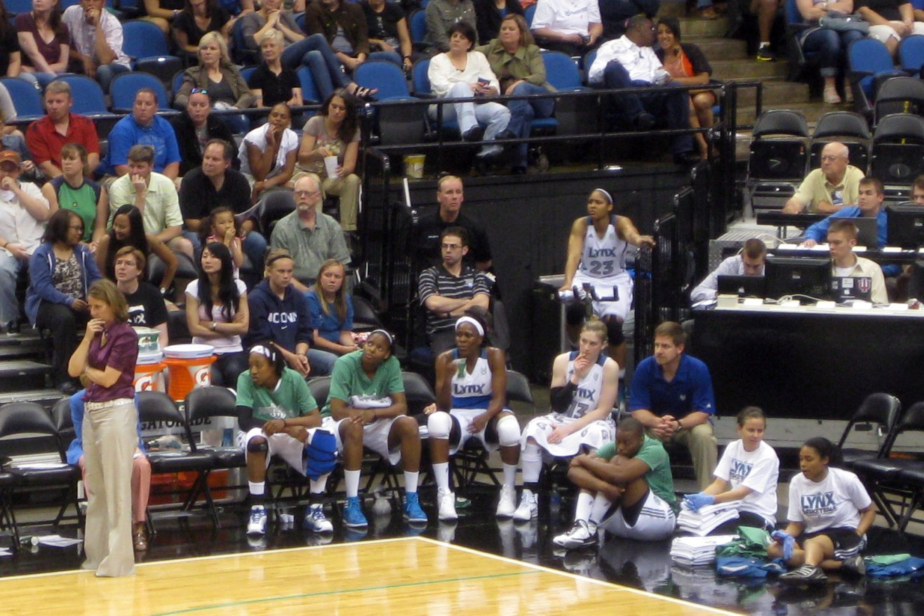 A shot of the Minnesota Lynx bench, including coach Cheryl Reeve, guard Lindsay Whalen, center Taj McWilliams-Franklin, and forward Maya Moore